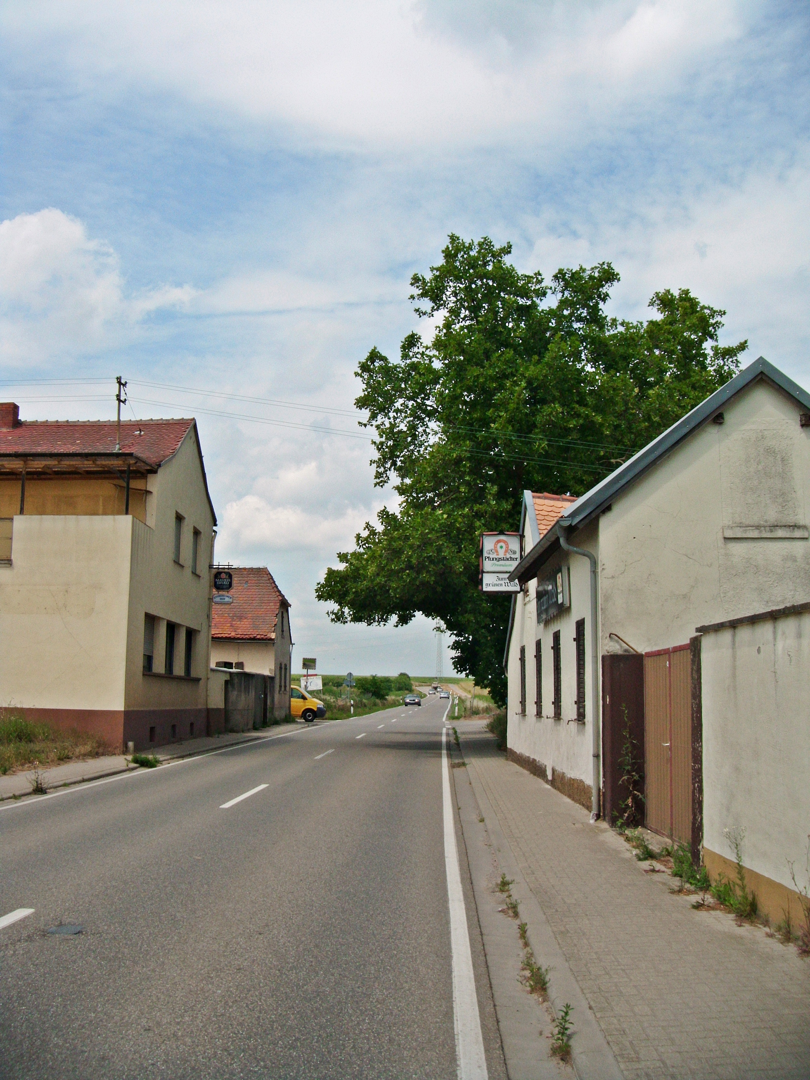 Eyersheimer Hof von Süden